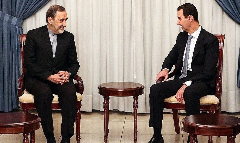 Syrian President Bashar al-Assad meets Iran's special representative on Syrian affairs, Ali Akbar Velayati